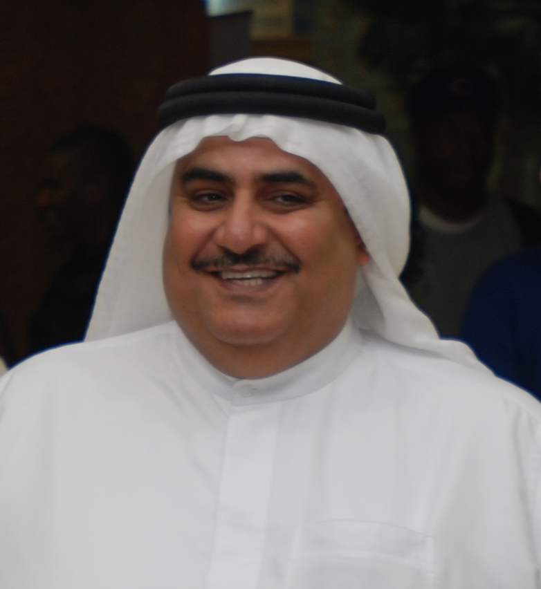 Bahrain's Minister of Foreign Affairs, His Excellency, Shaikh Khalid Bin Ahmad Bin Mohammed Al-Khalifa (one of various transliterations)